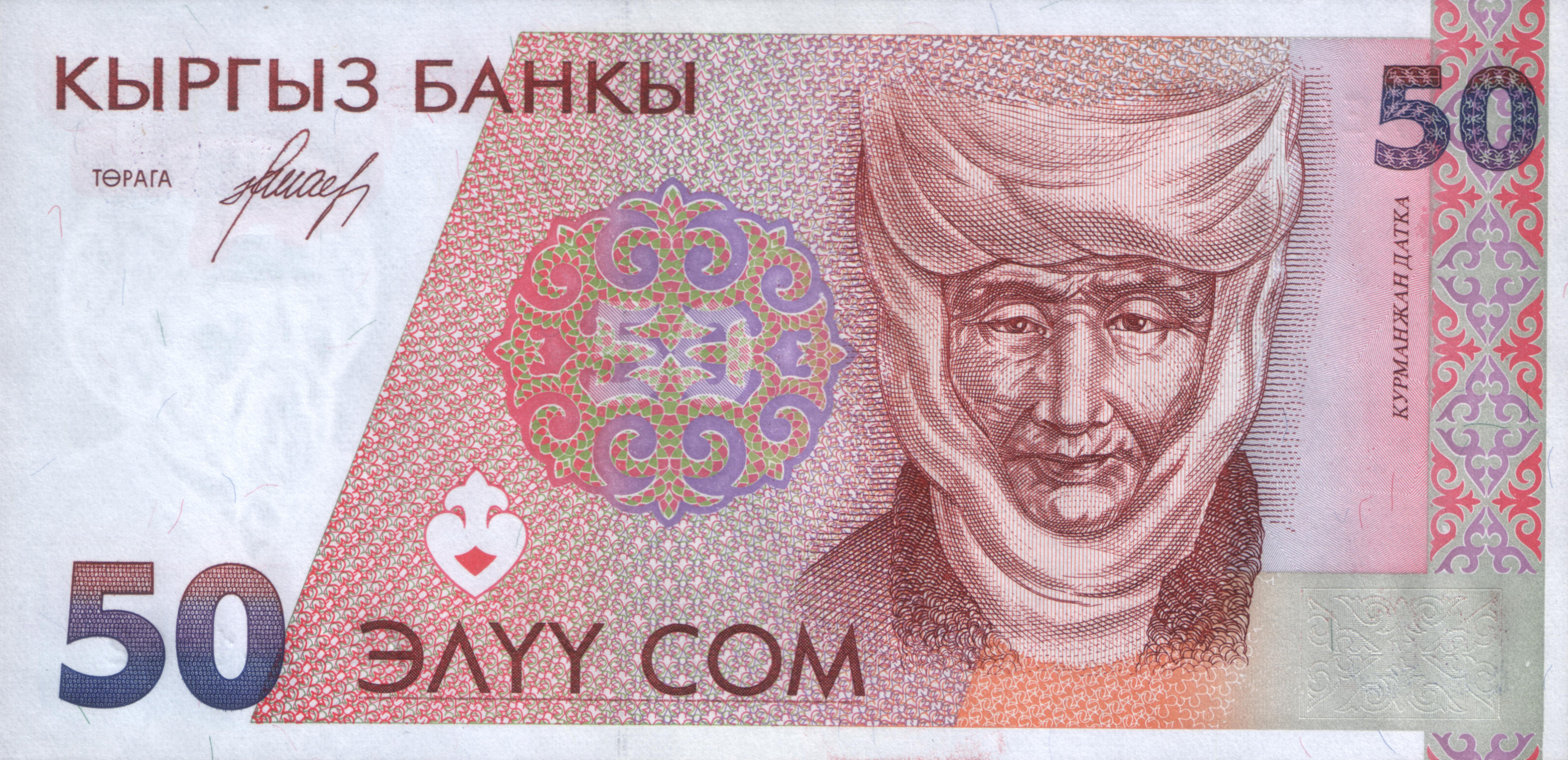 50 som of Kyrgyzstan (1994)